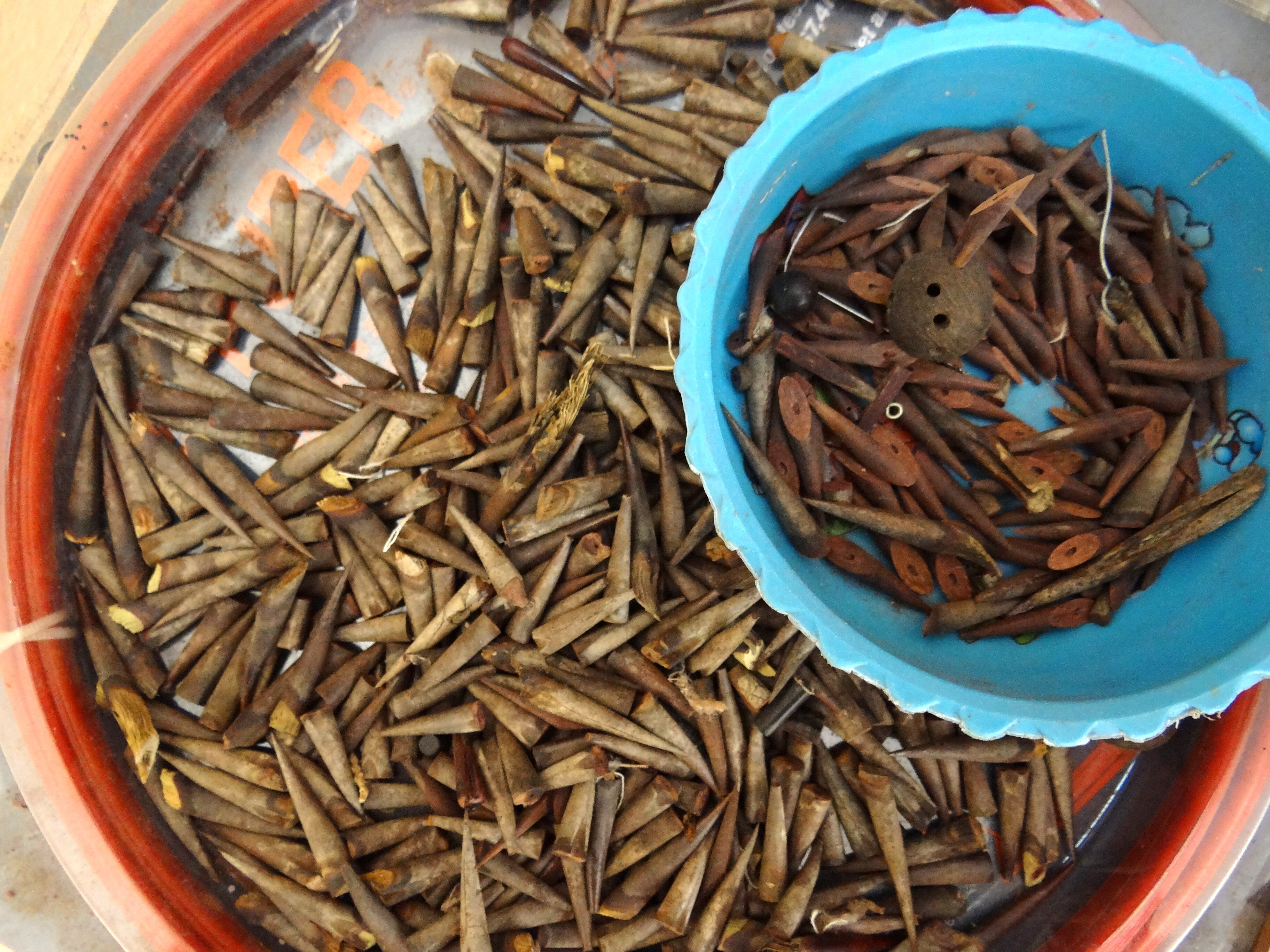 Henequen Spines for Jewelry - Workshop of Esteban Aban Montejo - Izamal - Merida - Mexico